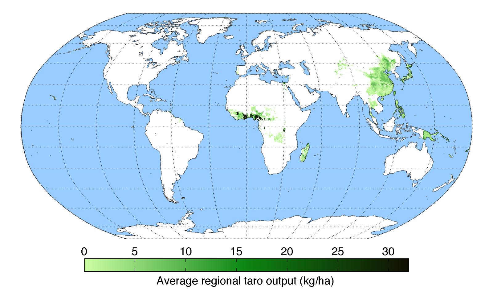 Map of taro production (average percentage of land used for its production times average yield in each grid cell) across the world compiled by the University of Minnesota Institute on the Environment with data from: Monfreda, C., N. Ramankutty, and J.A. Foley. 2008. Farming the planet: 2. Geographic distribution of crop areas, yields, physiological types, and net primary production in the year 2000. Global Biogeochemical Cycles 22: GB1022